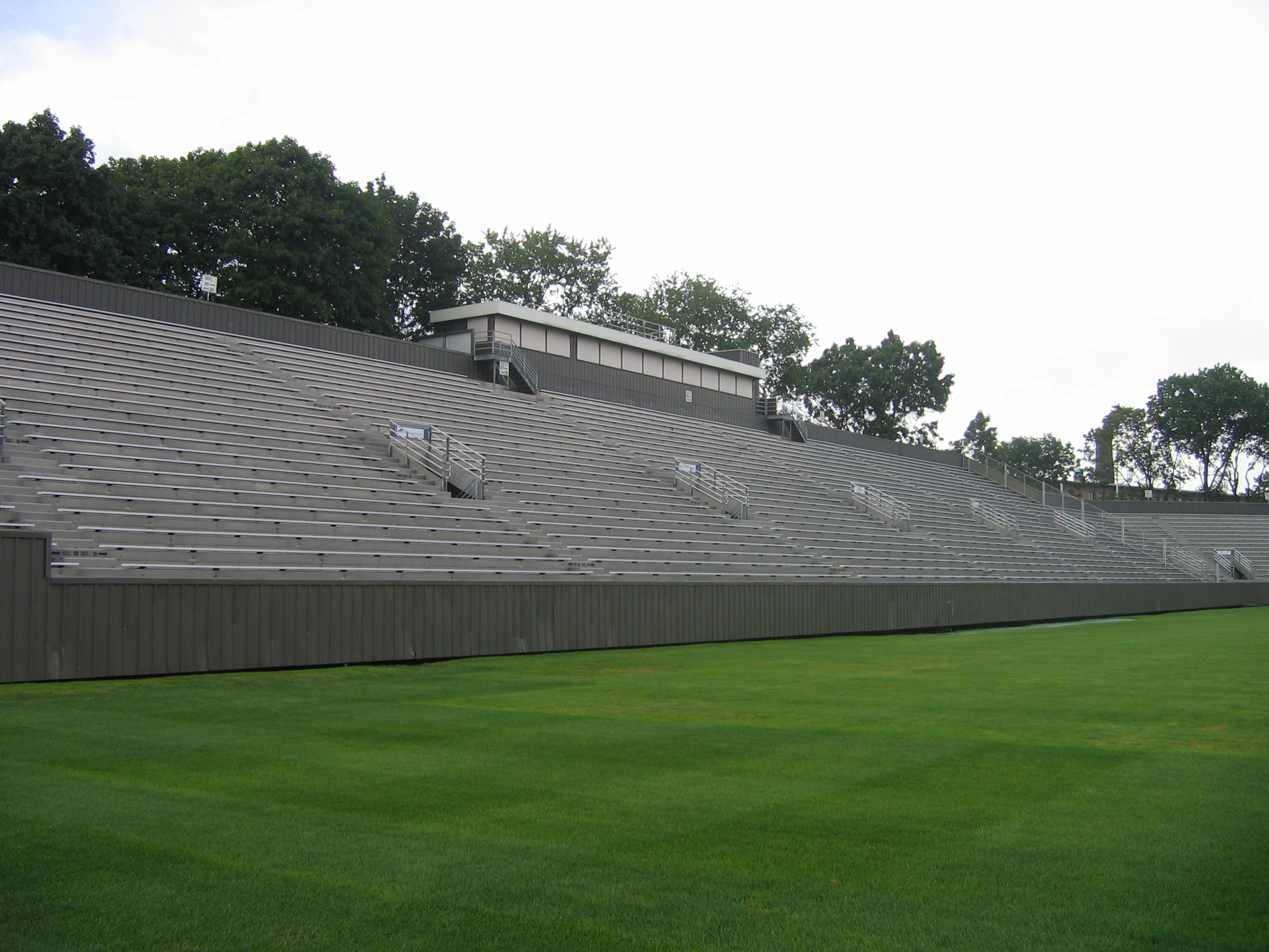 Football & Basketball Facilities U Holy Cross Stadium